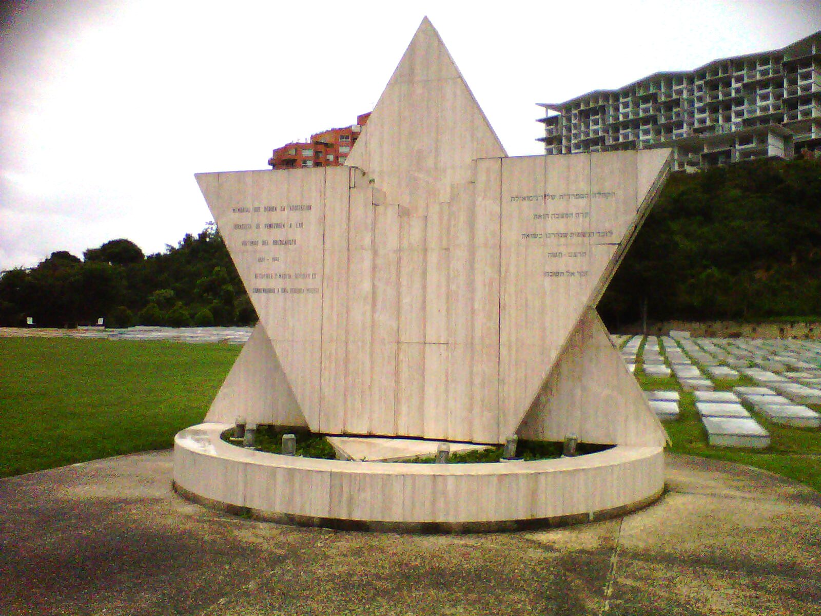 Monument dedicated to the memory of those murdered during the Holocaust at the (Sephardic) Jewish section (administered by the Israelite Association of Venezuela) of Cementerio del Este in La Guairita, Caracas. Ladino: Monumento en onor de los amortados enel Olokósto en la seksiyon de la komunita sefardi (Asosiasiyon Israeliana de Venezuela) enel Betahayim de La Guairita, en la sivdad de Karakas